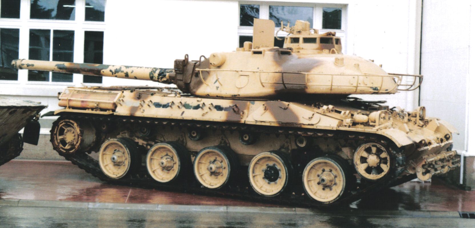 An AMX 30 Demin mine rolling tank at the Saumur Tank Museum